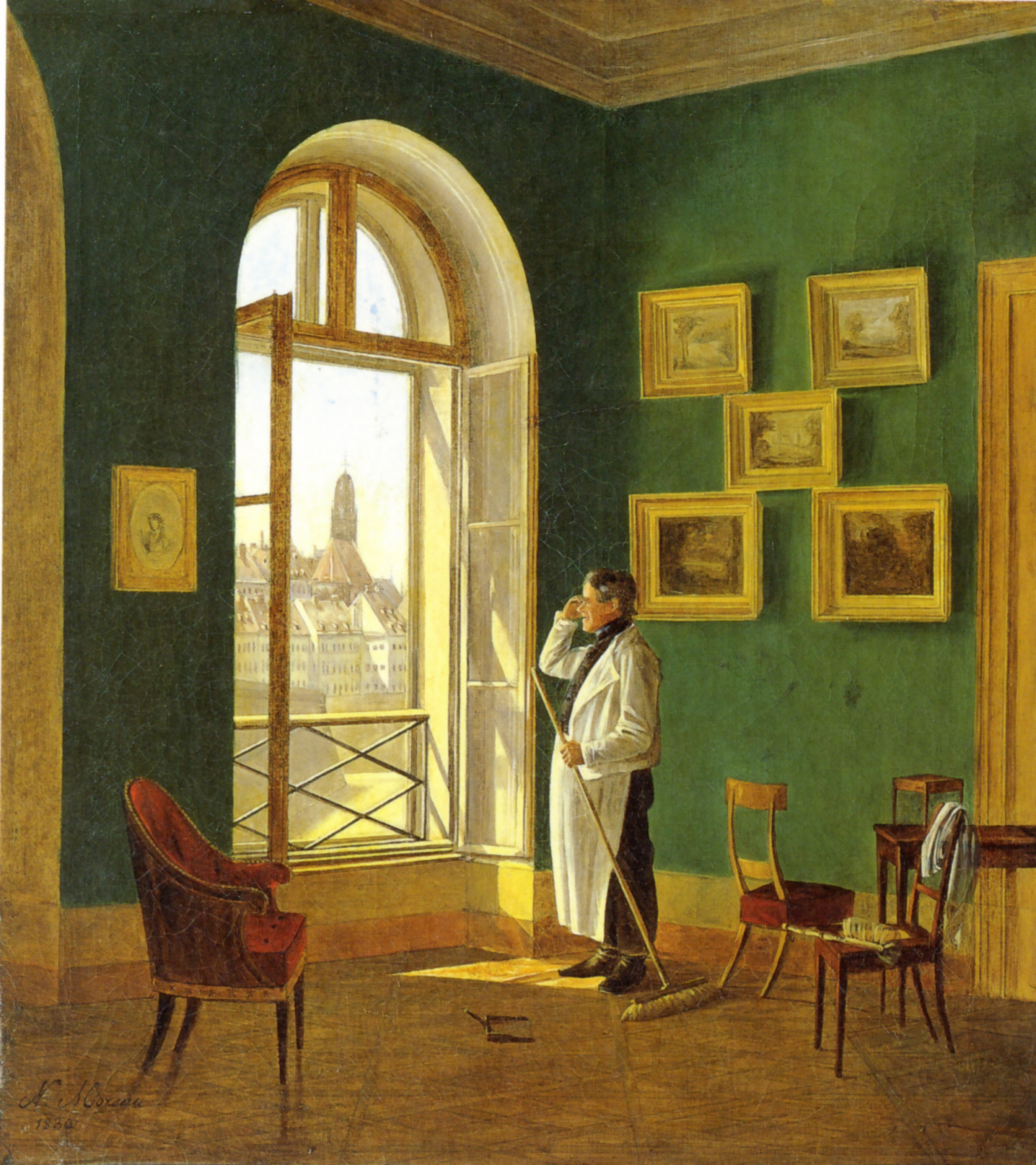 View from a window of the Dianabad in Vienna